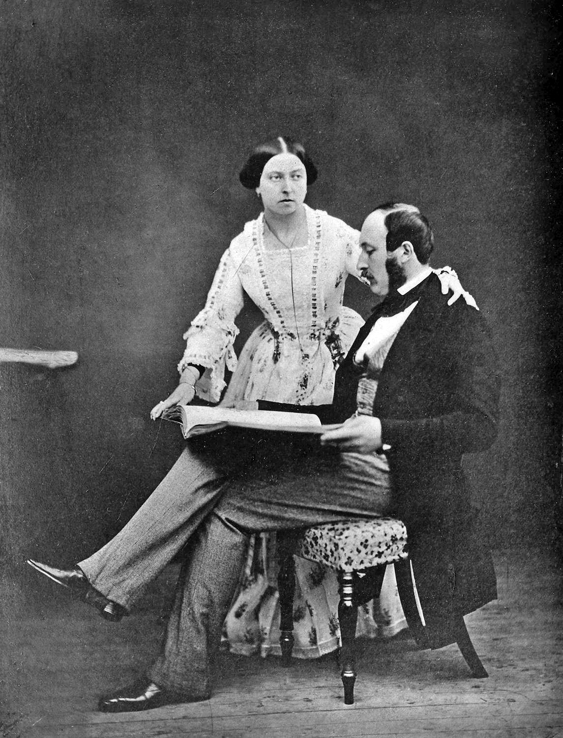 Queen Victoria and Prince Albert